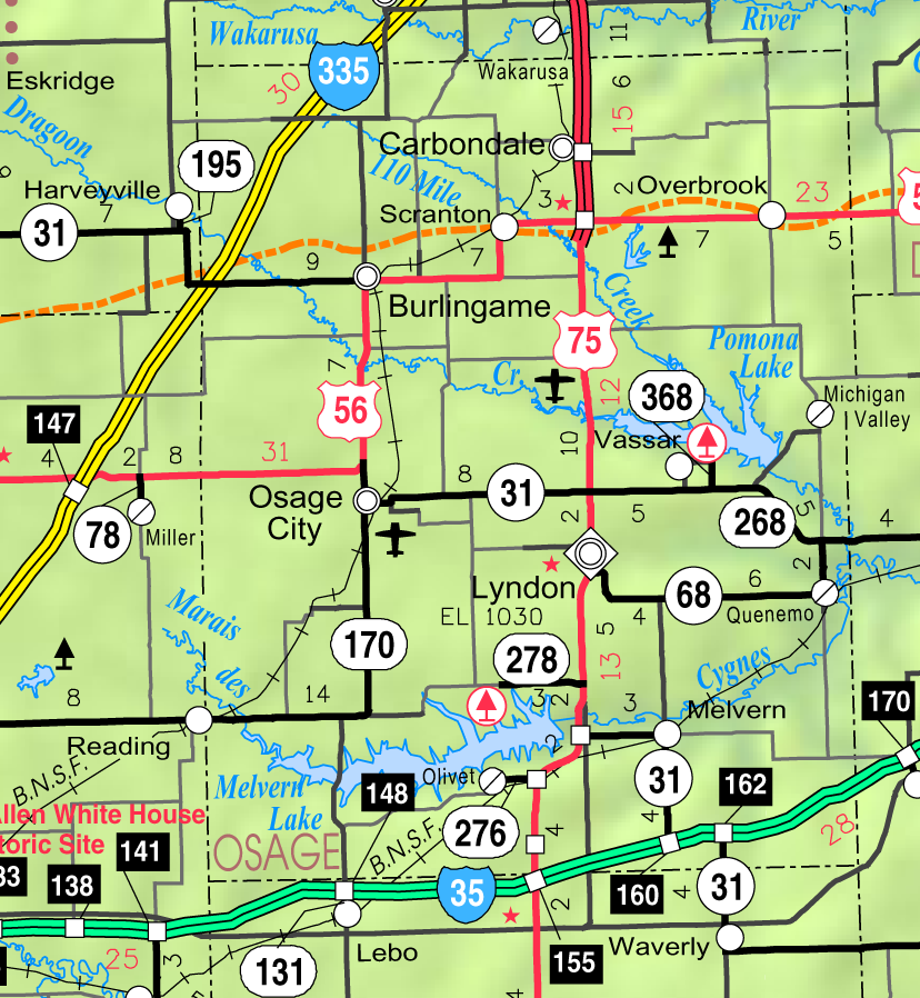 This map of Osage County, Kansas, USA, is copied at a resolution of 300 pixels/inch from the original PDF file.